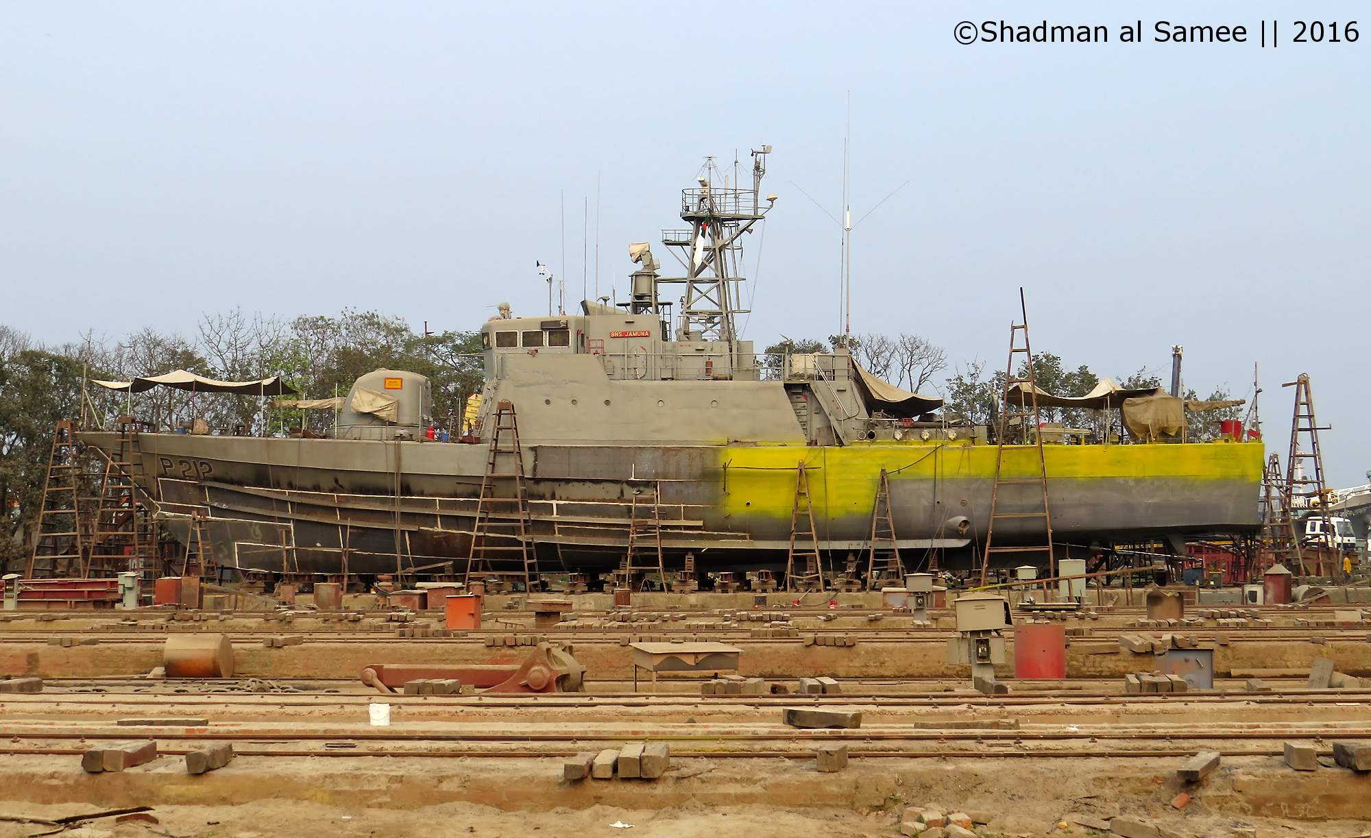 Seen at Khulna Shipyard, undergoing the 3-yearly refits. 2016